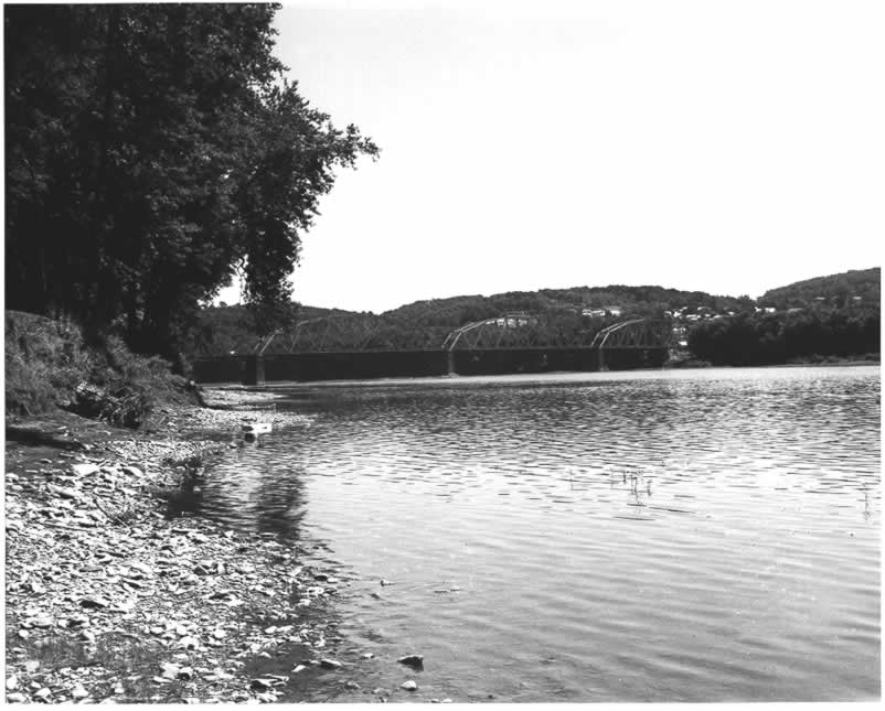 Webster-Donora Bridge, which carries Legislative Route 143 over the Monongahela River between Rostraver Township, Westmoreland County and Donora borough, Washington County, both in Pennsylvania, United States. Built in 1908, the bridge is listed on the National Register of Historic Places.